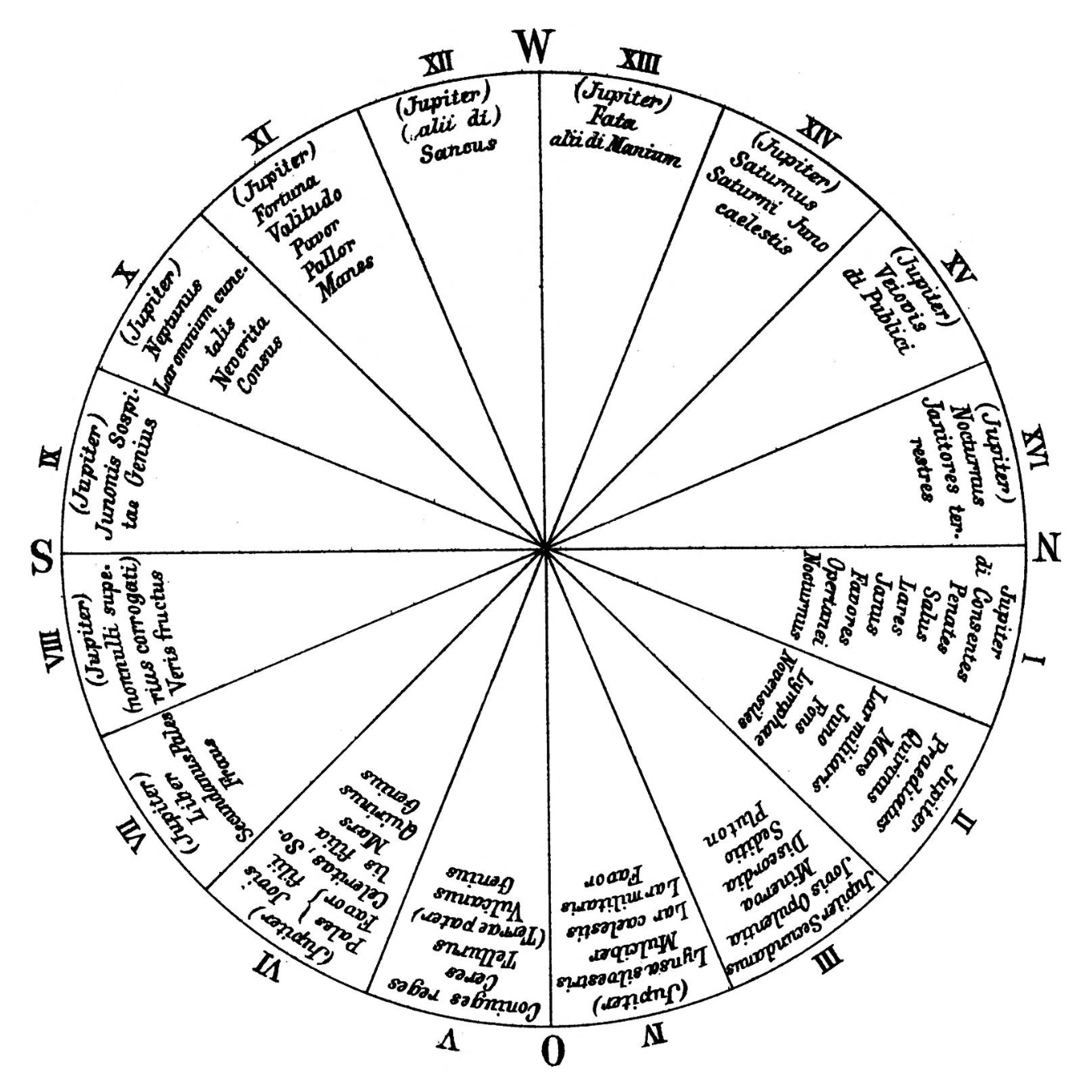 Regions of the sky after Martianus Capella